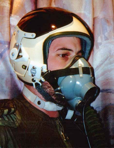 USSR oxygen mask KM-34 with throat microphone for MiG aircraft pilots